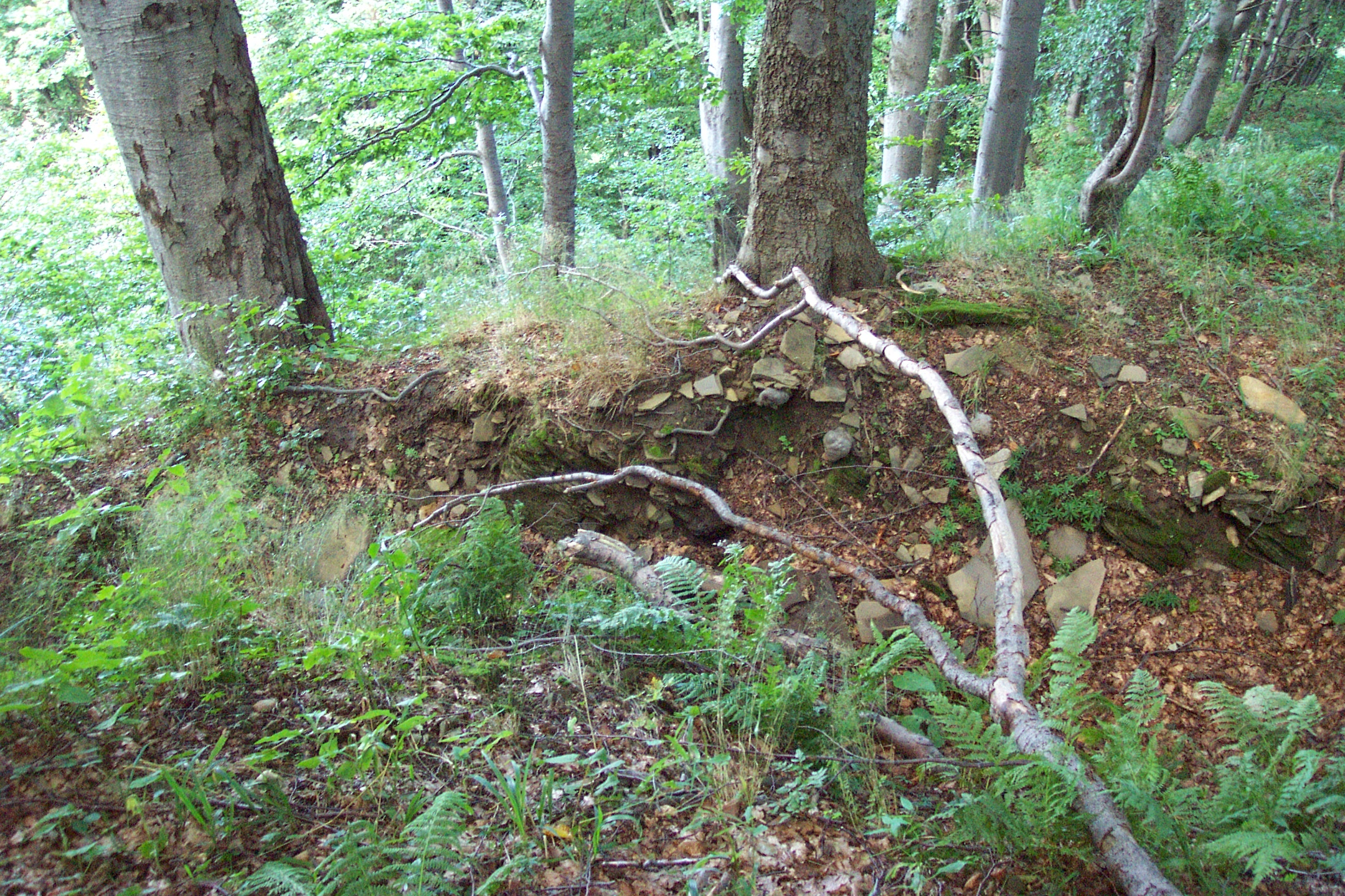 Trench in Černiny, Slovakia.